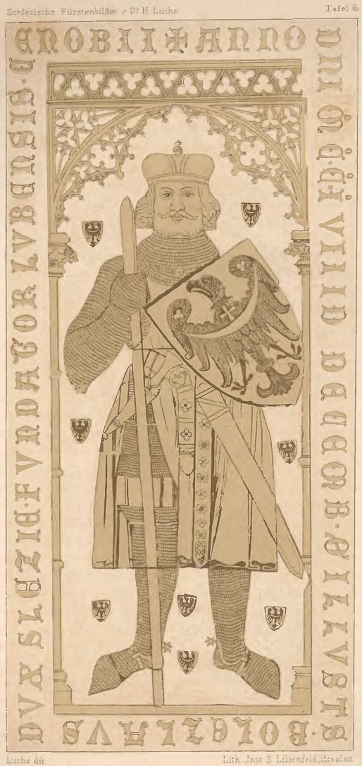 Tomb of duke Boleslaus of Silesia